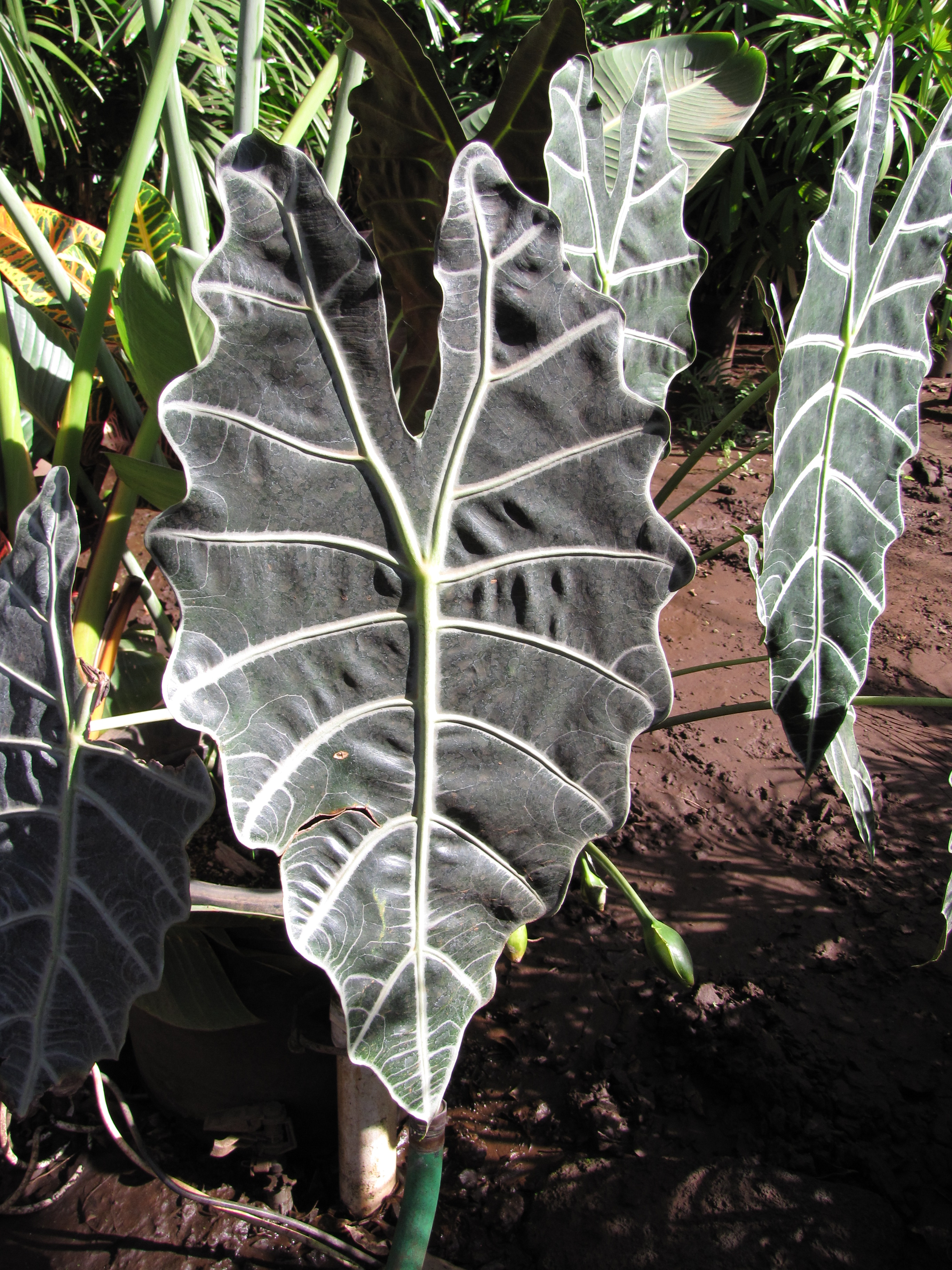 Alocasia x amazonica (African mask, Amazon elephant ear) Leaves at Resort Management Group Nursery Kihei, Maui, Hawaii. February 09, 2011 #110209-0812 Image Use Policy